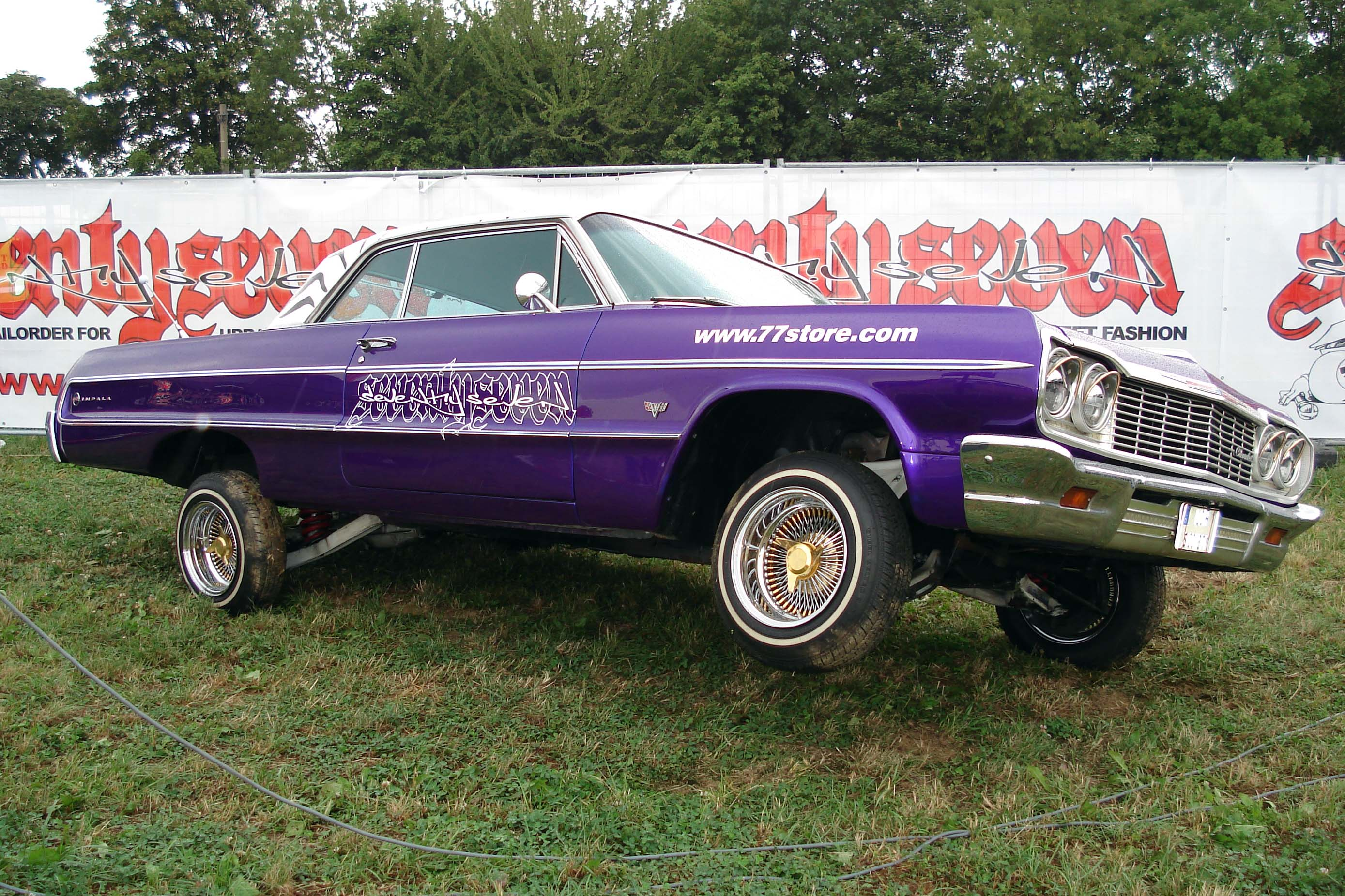 Chevrolet Impala Lowrider custom car